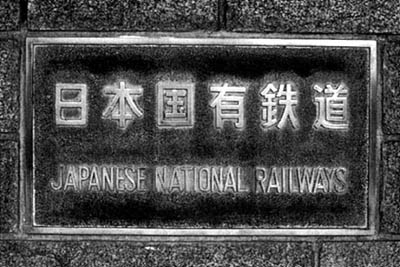 Nameplate of Japanese National Railways Mainoffice (around 1985)